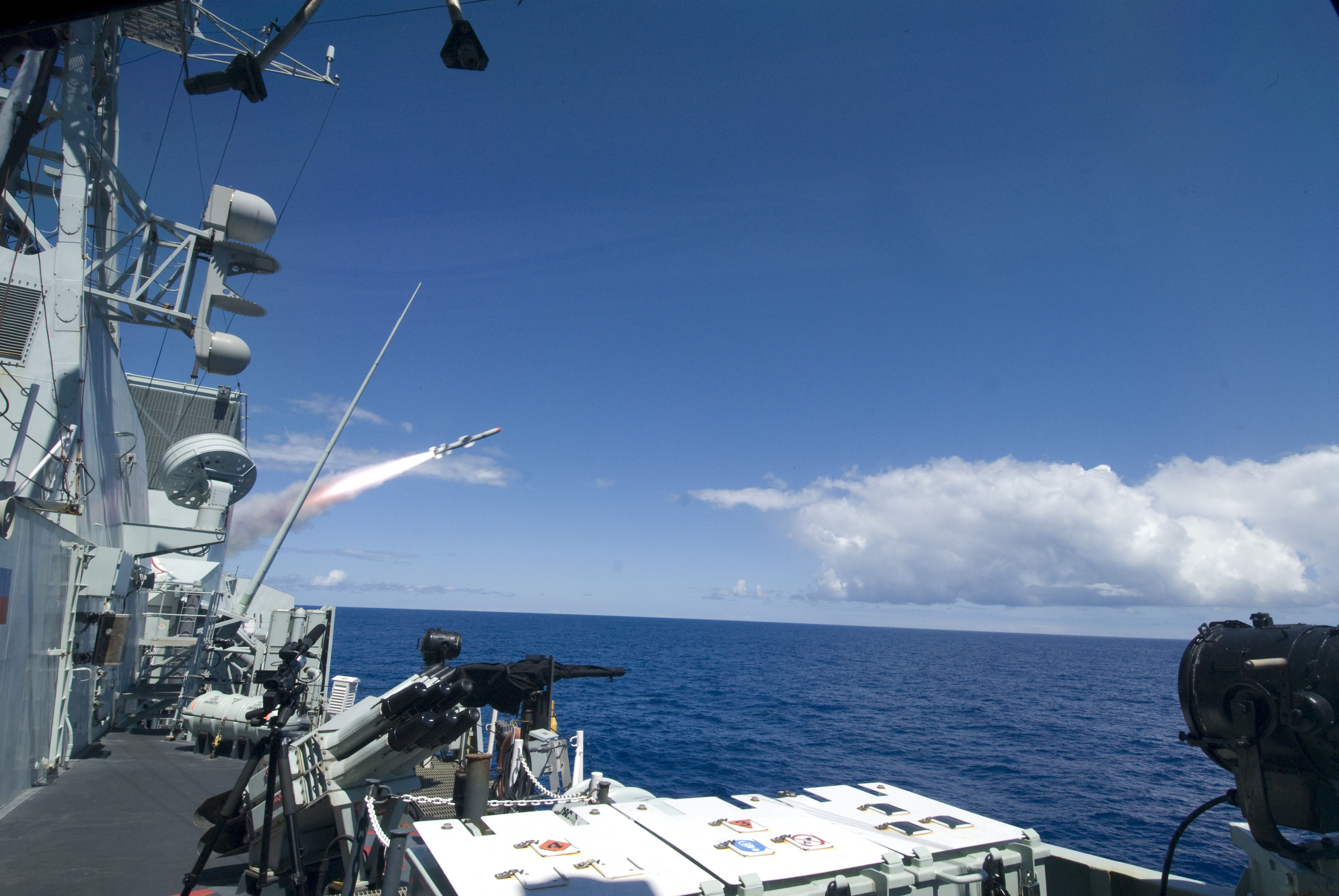 PACIFIC OCEAN (July 14, 2008) The Canadian frigate HMCS Regina (FFH 334) fires a Harpoon anti-ship missile during a Rim of the Pacific (RIMPAC) sinking exercise. RIMPAC is the world's largest multinational exercise and is scheduled biennially by the U.S. Pacific Fleet. Participants include the United States, Australia, Canada, Chile, Japan, the Netherlands, Peru, Republic of Korea, Singapore, and the United Kingdom. (U.S. Navy photo by Mass Communication Specialist 1st Class Kirk Worley/Released)